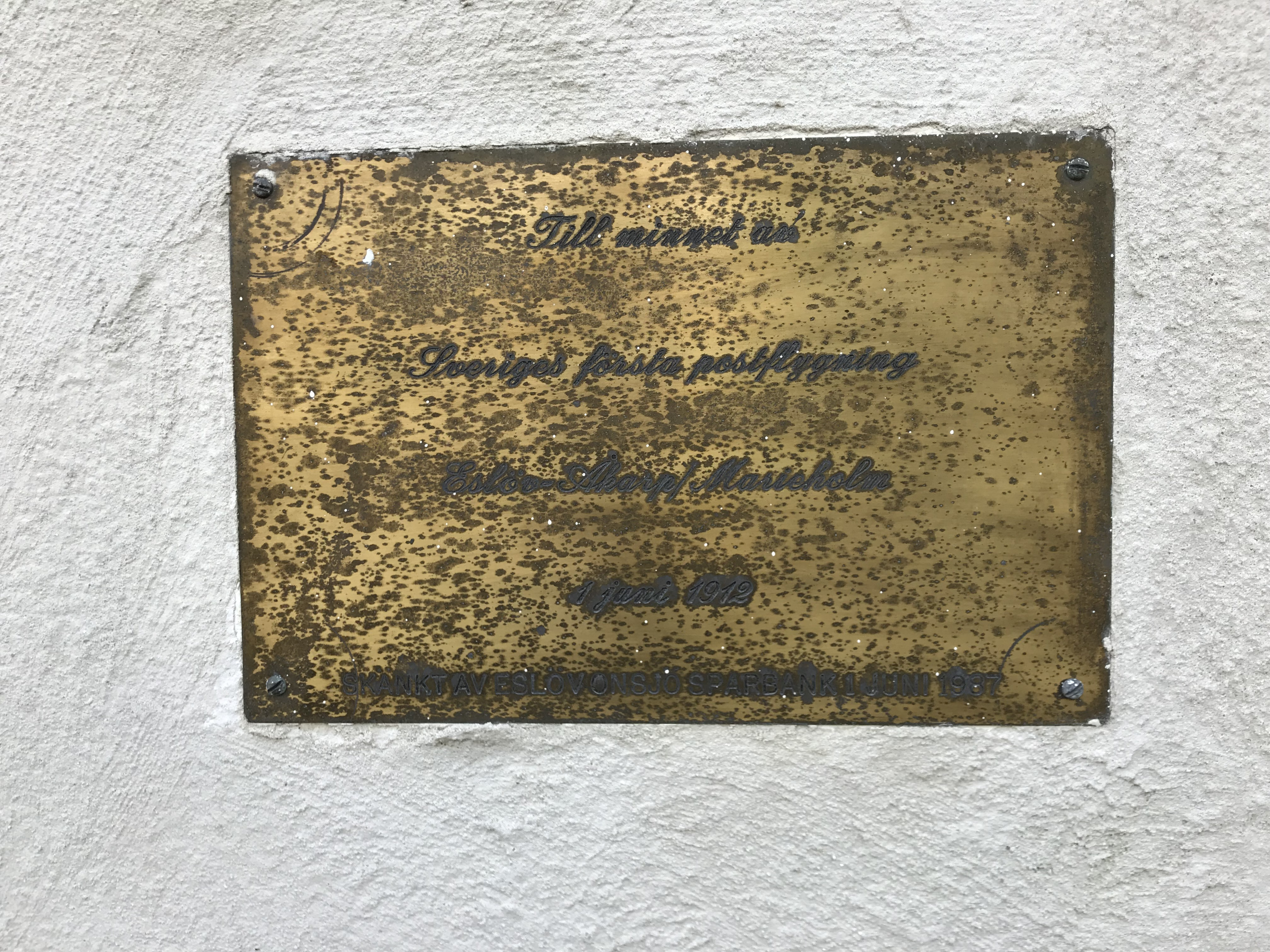 A plaque commemmorating the first postal flight of Sweden on the wall of the former Marieholm Inn (gästgivaregård) in Marieholm in Sweden, on May 24, 2019.